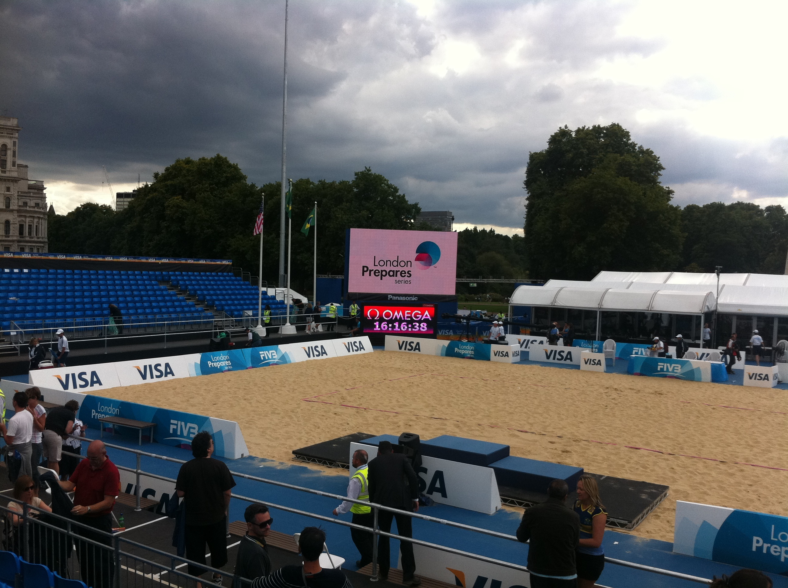 Centre Court at Horse Guard's Parade. With a capacity of 1,500, for the Olympics the court will be ten times bigger with a capacity of 15,000